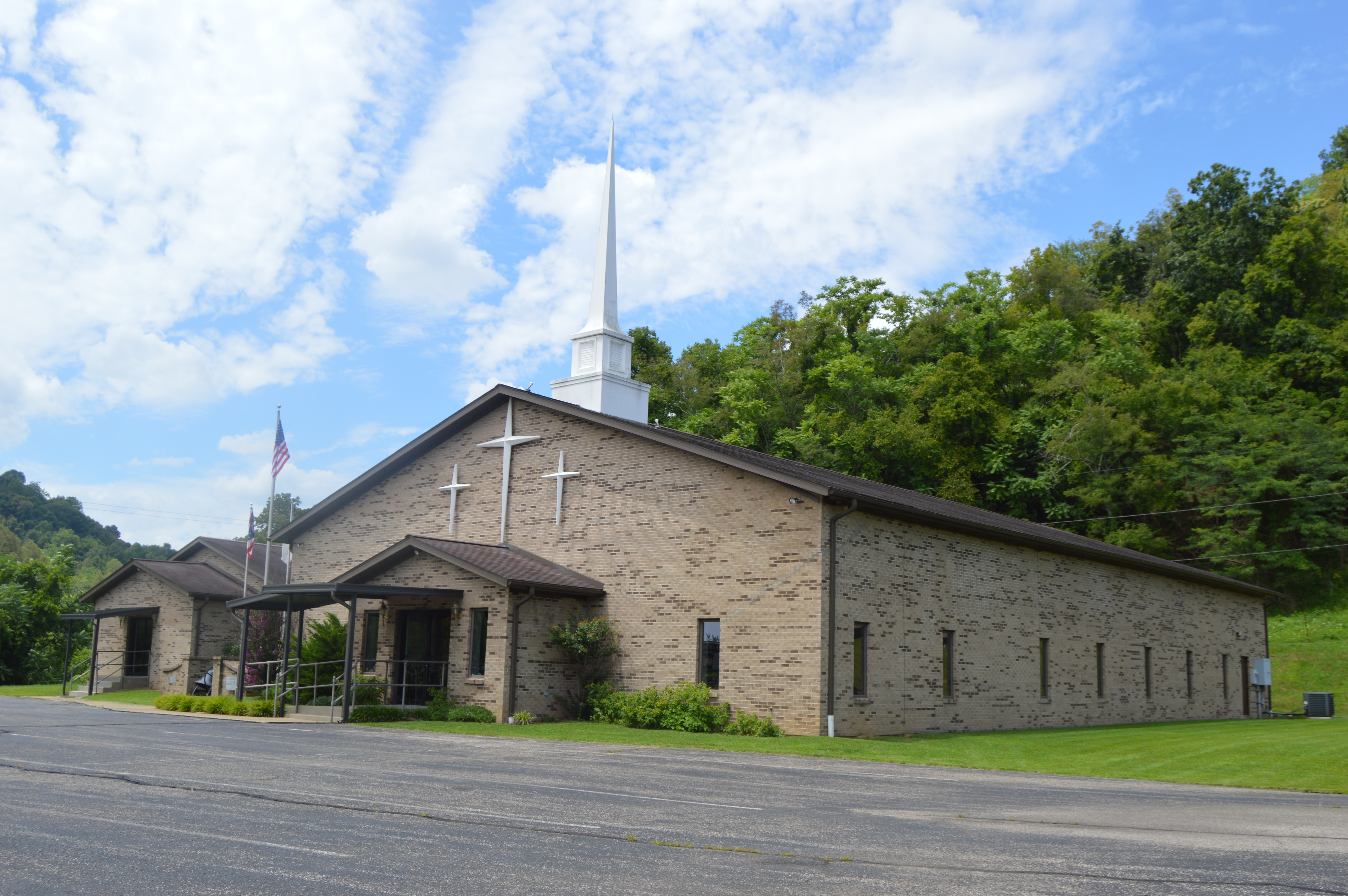 Northern side and front of the Crown City Wesleyan Church, located at 26144 State Route 7 in Crown City, Ohio, United States. Although within village limits, the church is also within the boundaries of the Wayne National Forest.